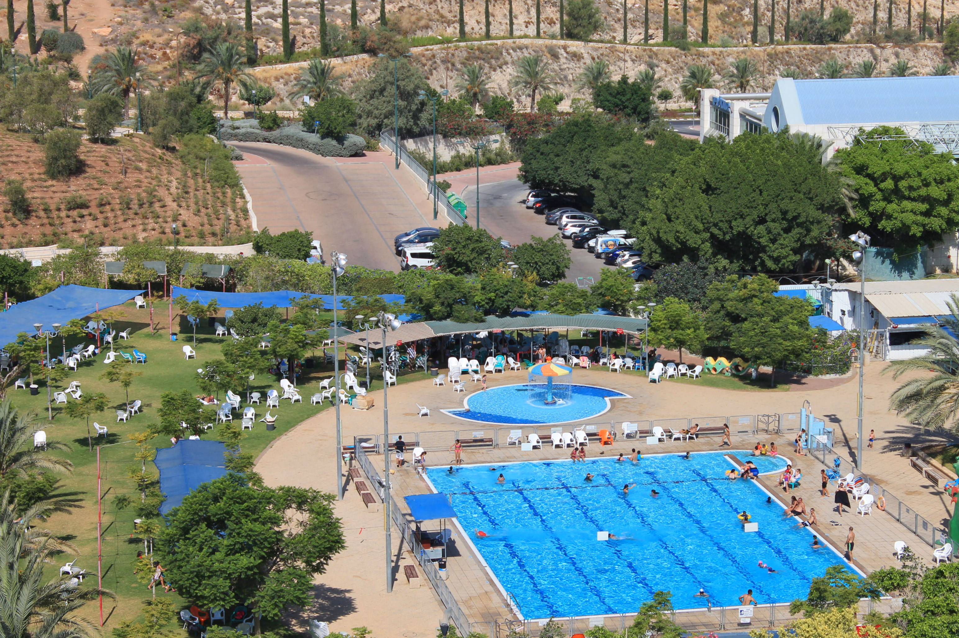 ma'ale adumim, swimming pool, view from Maale Adumim Cultural Hall